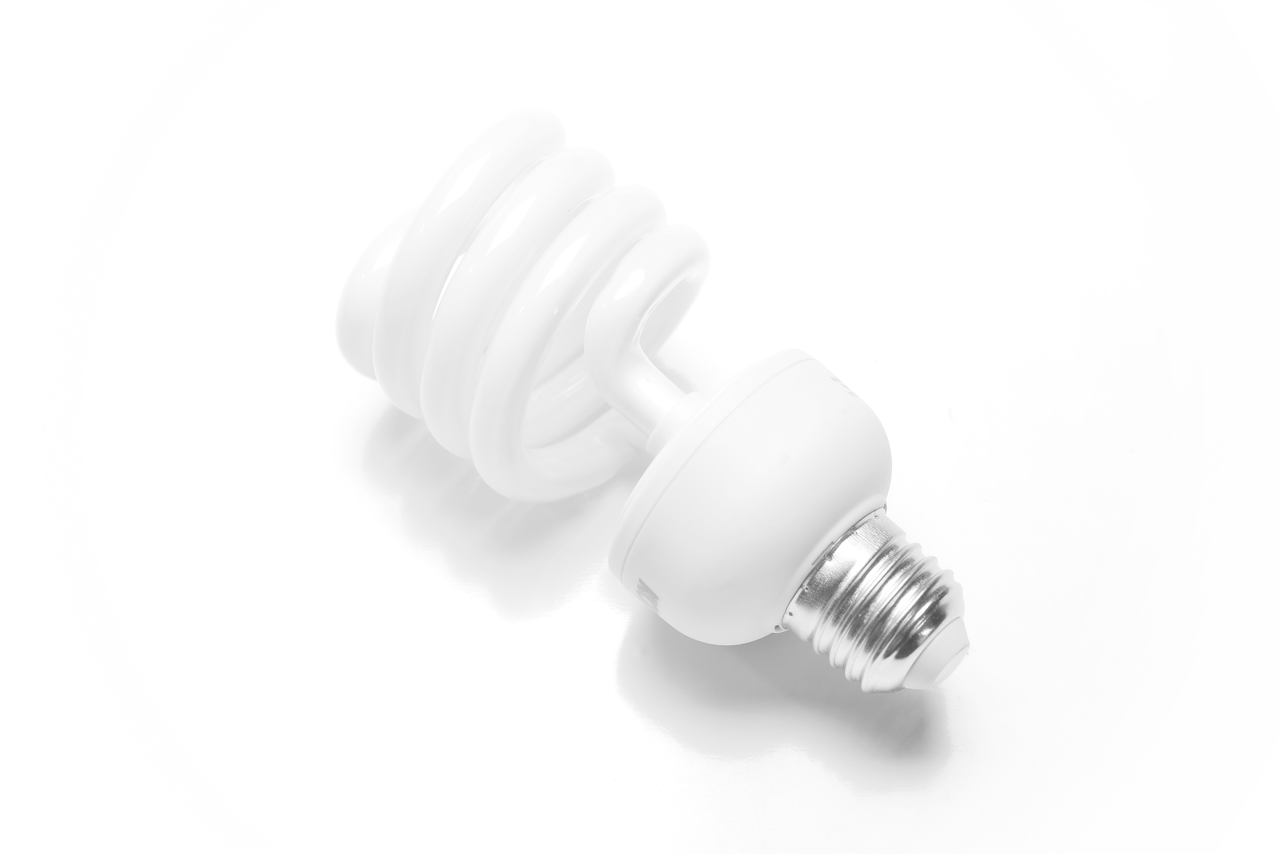 A compact fluorescent lamp E27 (23W)